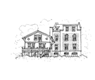 Logo of the RaftoHuset